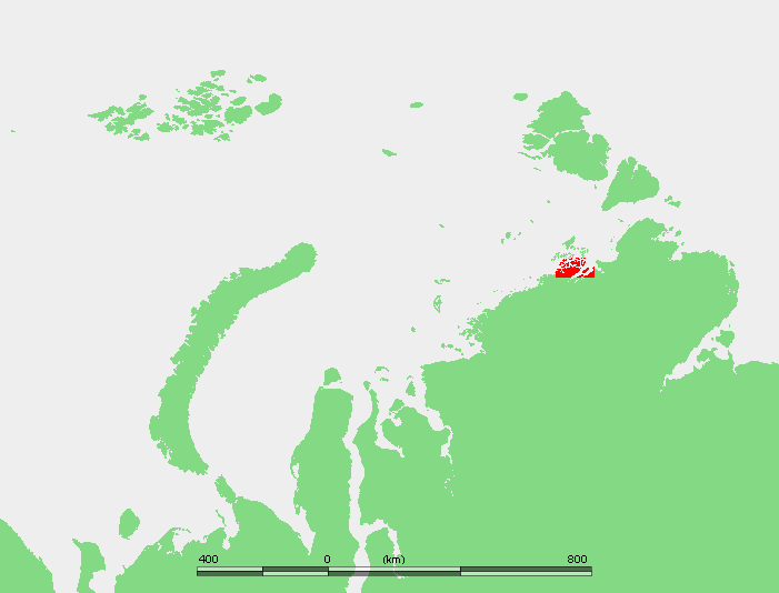 Location of Taymyr Island in the Kara Sea